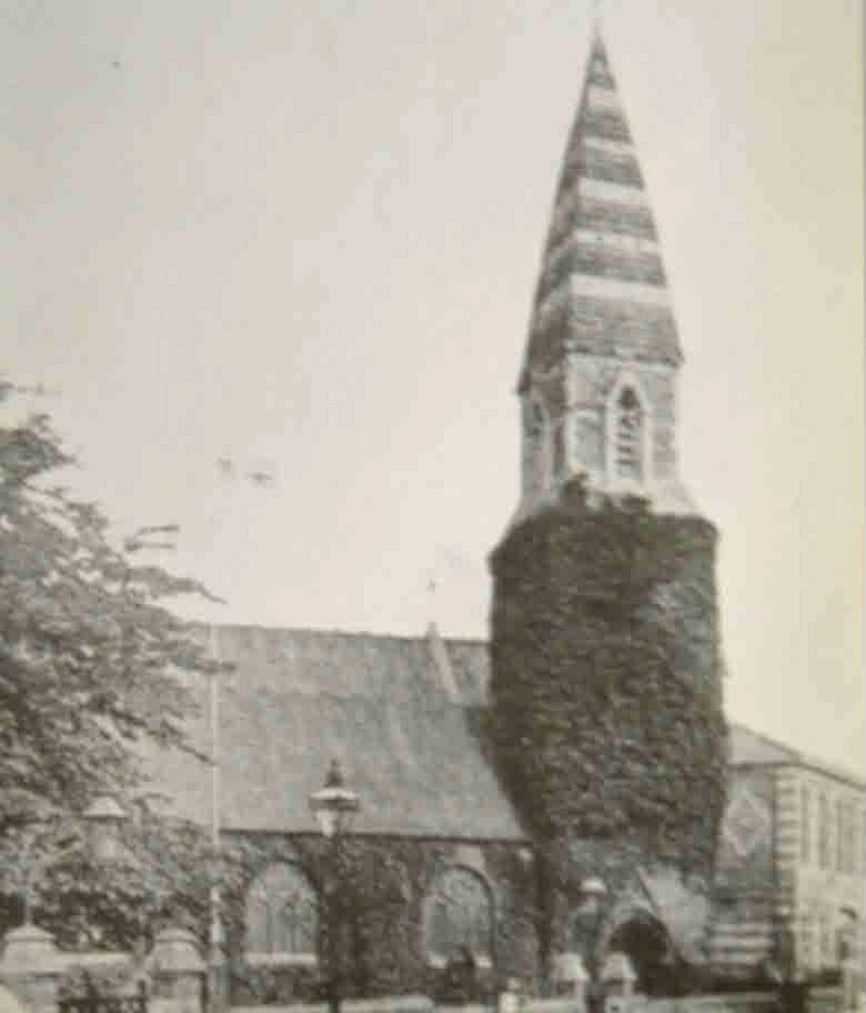 St Andrews Church, Queens Road, Hastings, completed in 1869 to the design of Matthew Edward Habershon (1828-1900) and consecrated by the Bishop of Chichester in 1870. It was constructed by builder John Howell of Hastings, and decorated inside with a large mural by Robert Tressell in 1904. It was declared unsafe and demolished in 1970.[1] ↑ See history of St Andrews Church, Queens Road, Hastings